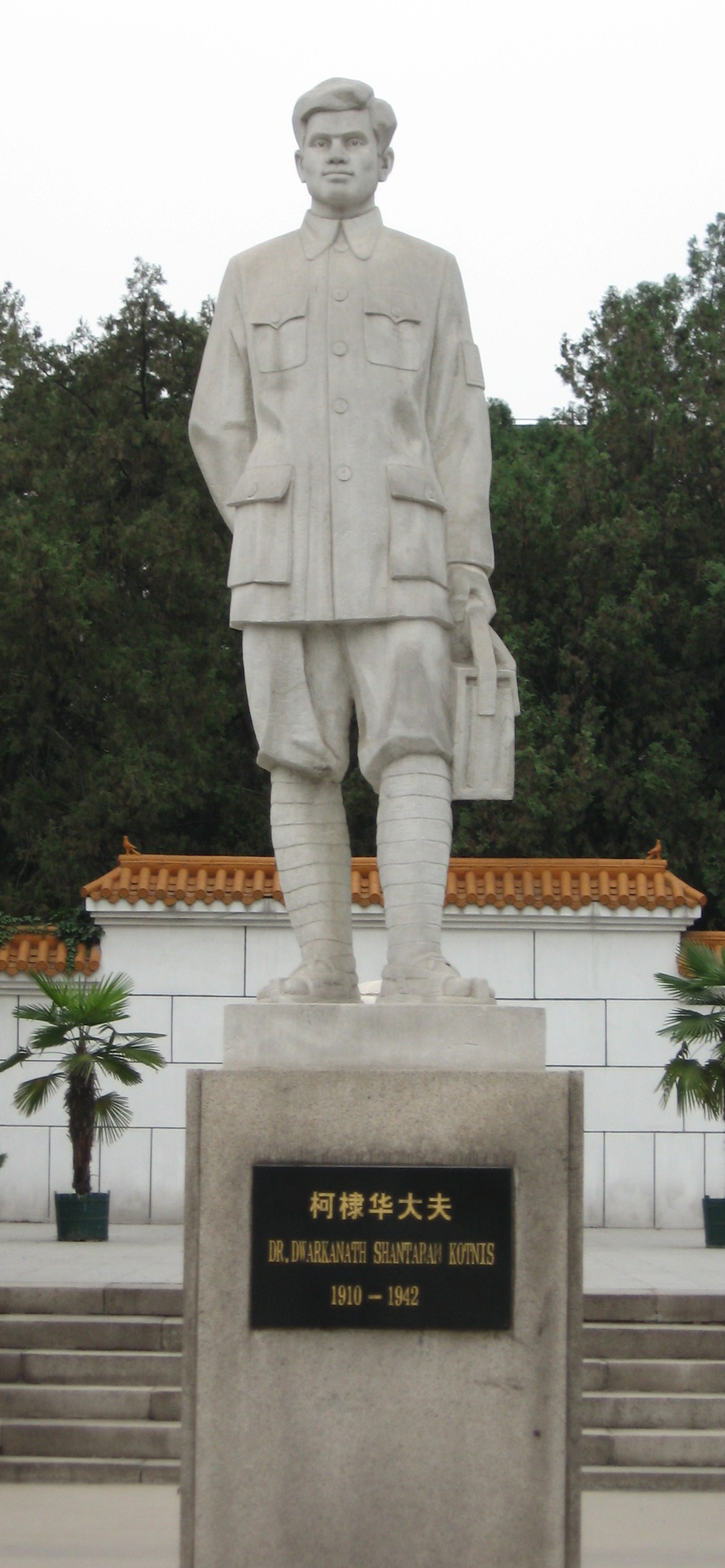 A statue of Dwarkanath Kotnis in Shijiazhuang Hebei,China.中国河北省石家庄市华北军区烈士陵园内柯棣华墓前柯棣华像。